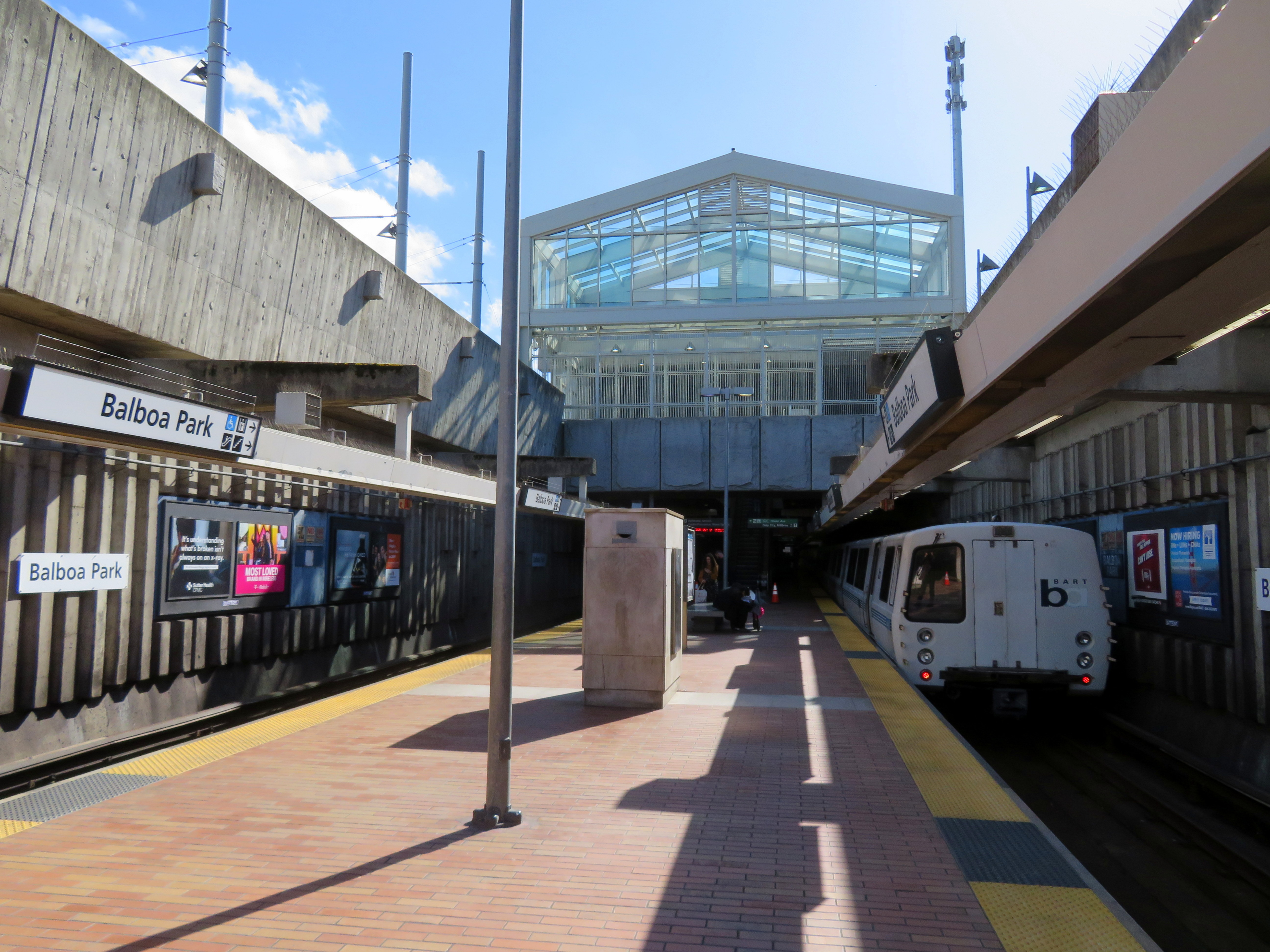 A Daly City-bound train (from Warm Springs) at Balboa Park station in February 2019